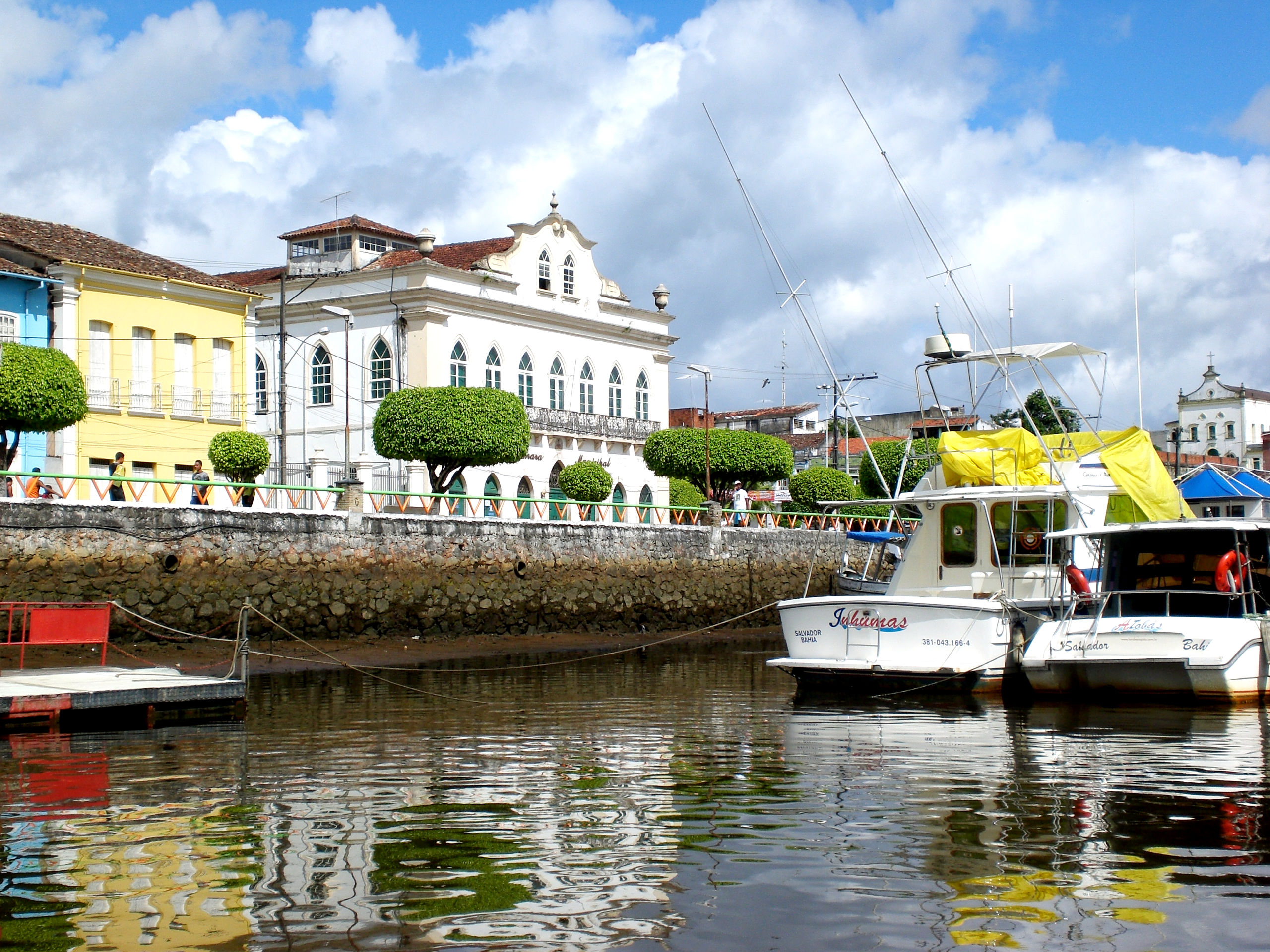 City Council, Valença, Bahia, Brazil.